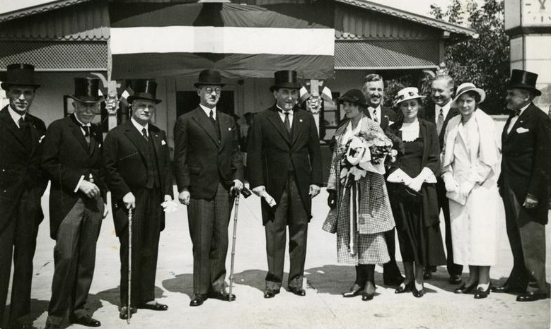 Gömbös Cabinet greets Austrian Chancellor Kurt von Schuschnigg at Mátyásföld Airport in August 1934. From left to right: Béla Imrédy (Finance), Ferenc Keresztes-Fischer (Interior), Tihamér Fabinyi (Trade and Transport), Kurt von Schuschnigg (Chancellor of Austria), Gyula Gömbös (Prime Minister of Hungary), wife of the Chancellor, Andor Lázár (Justice), Kálmán Darányi (Secretary of State of the Prime Minister's Office), Baron Leopold Hennet (Austrian Ambassador to Hungary), wife of the Ambassador, Miklós Kállay (Agriculture)